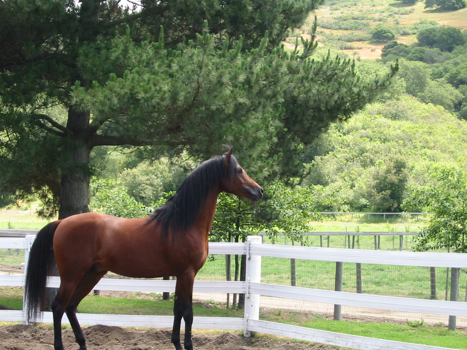 Jullyen El Jamaal - Sunday 4 Varian Arabians "Spring Fling" presentation of horses, 2002